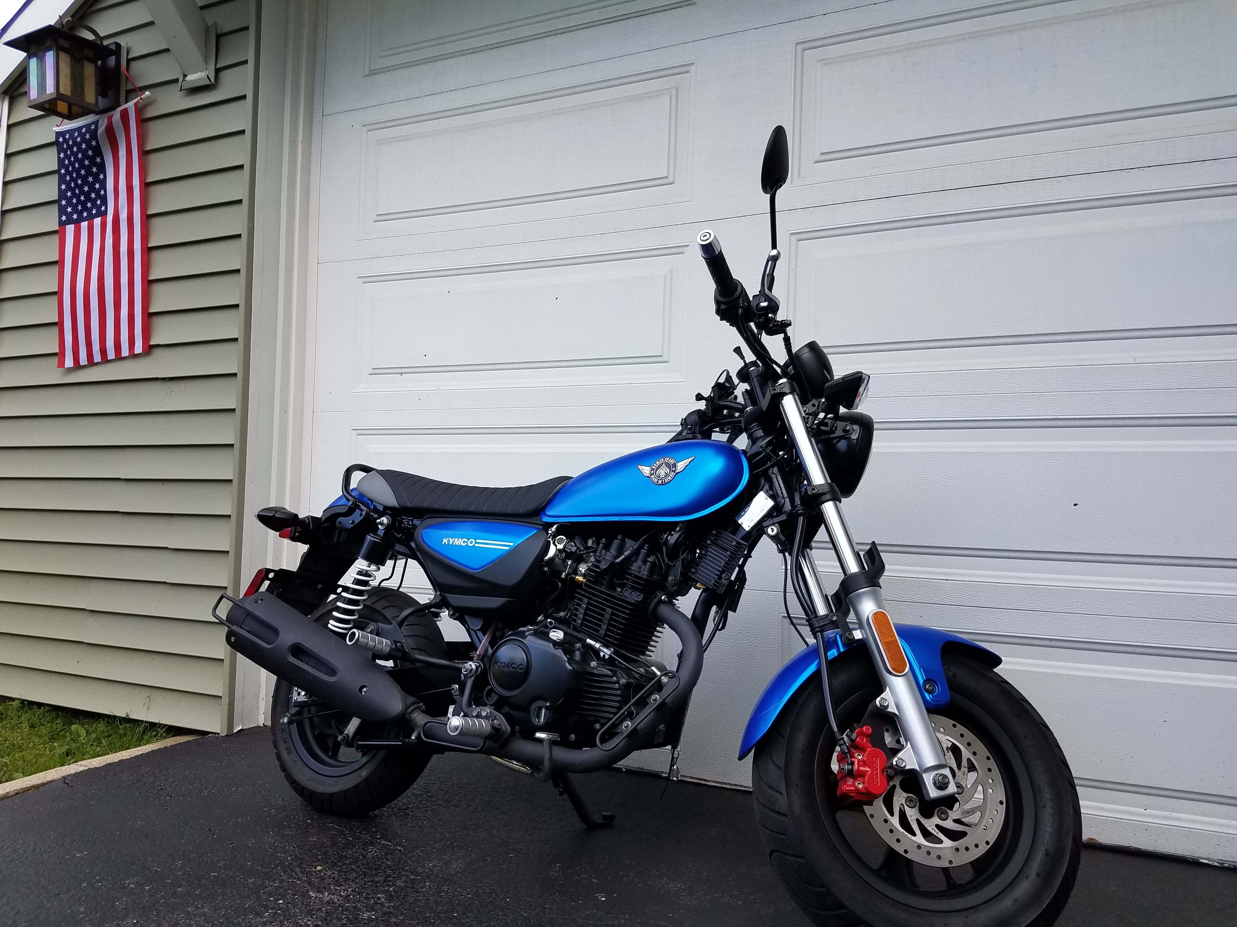 This retro styled bike is for riders who want a powerful engine with an all manual transmission and controlled fuel efficiency.